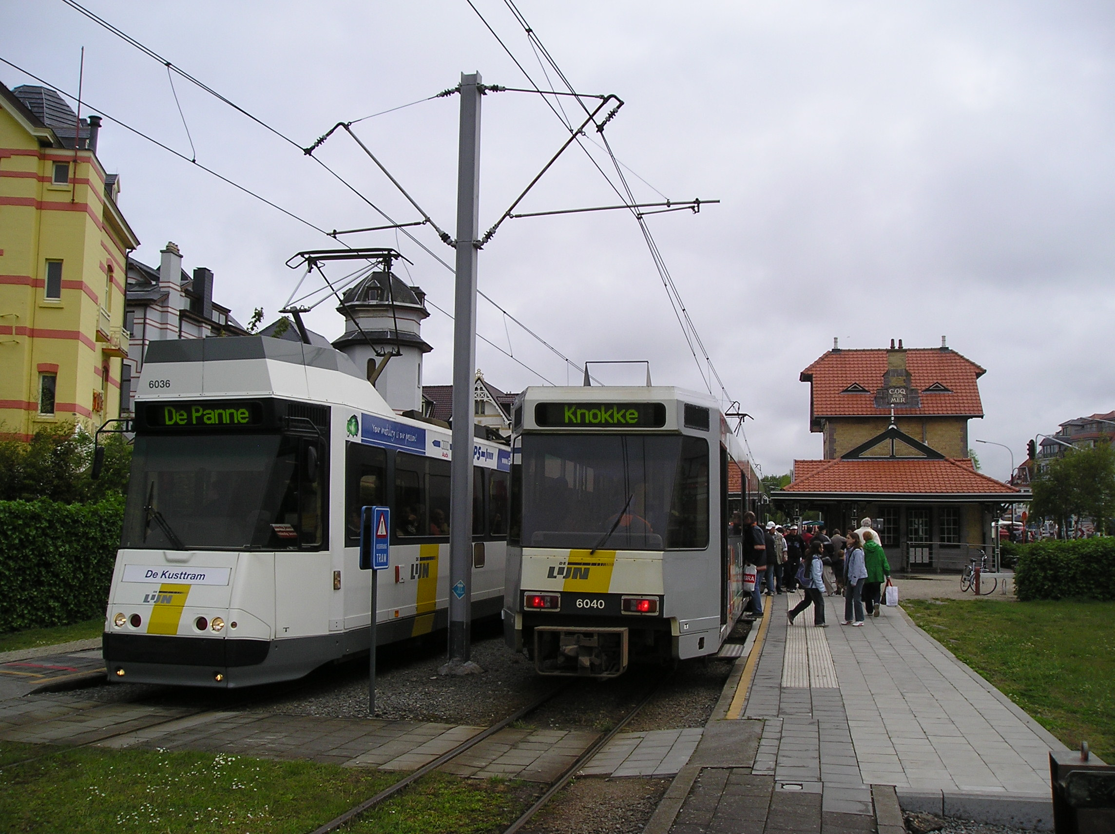 Trams in the station of the Coastal tram in the seaside resort town De Haan.